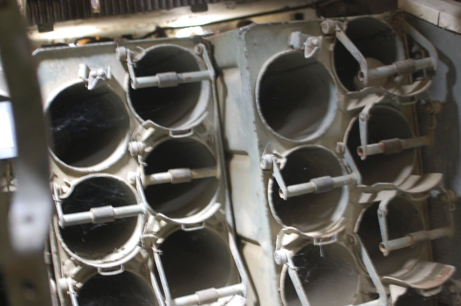 Ammunition racks of a T-62.